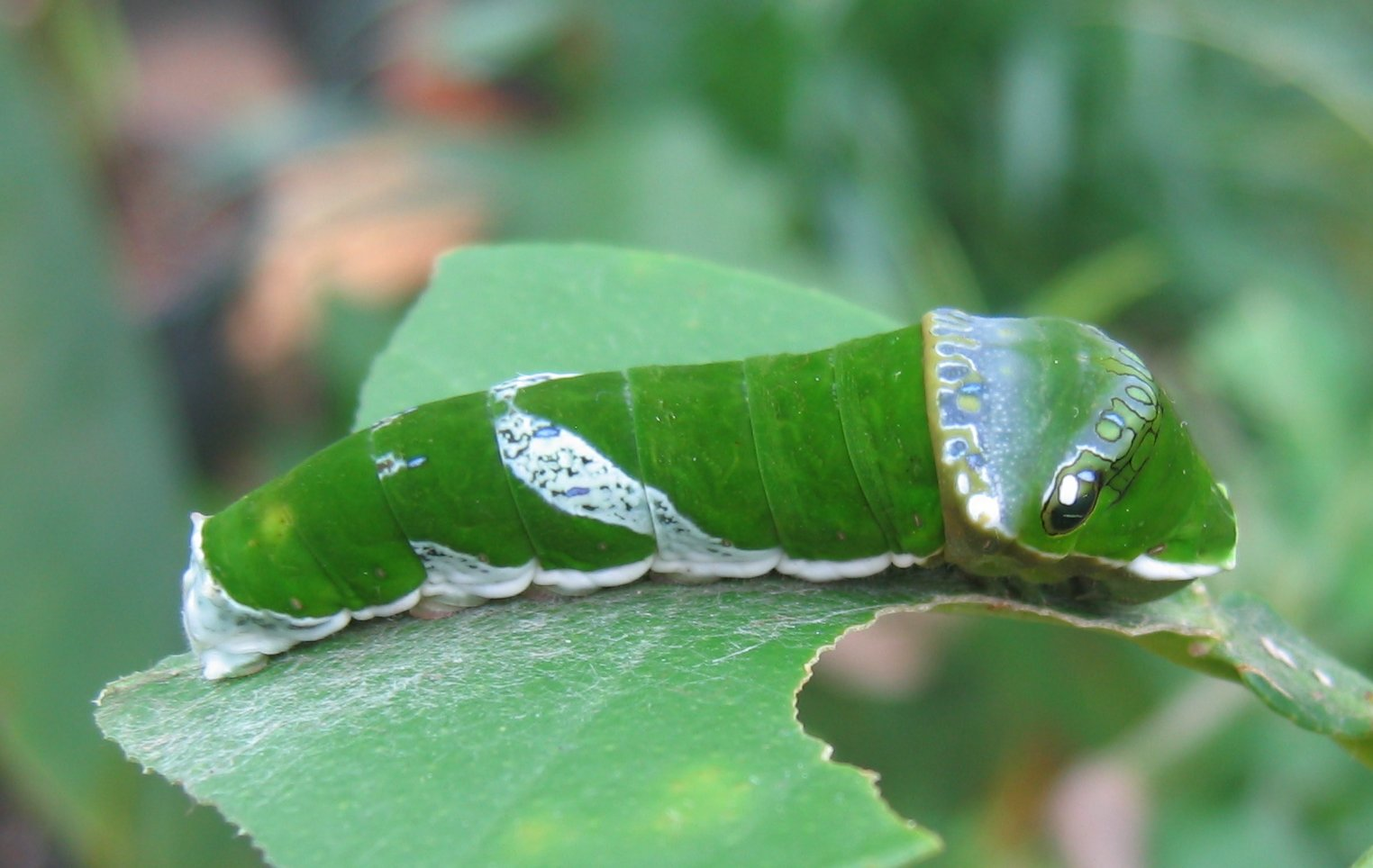 caterpillar Botanischer Garten München-Nymphenburg